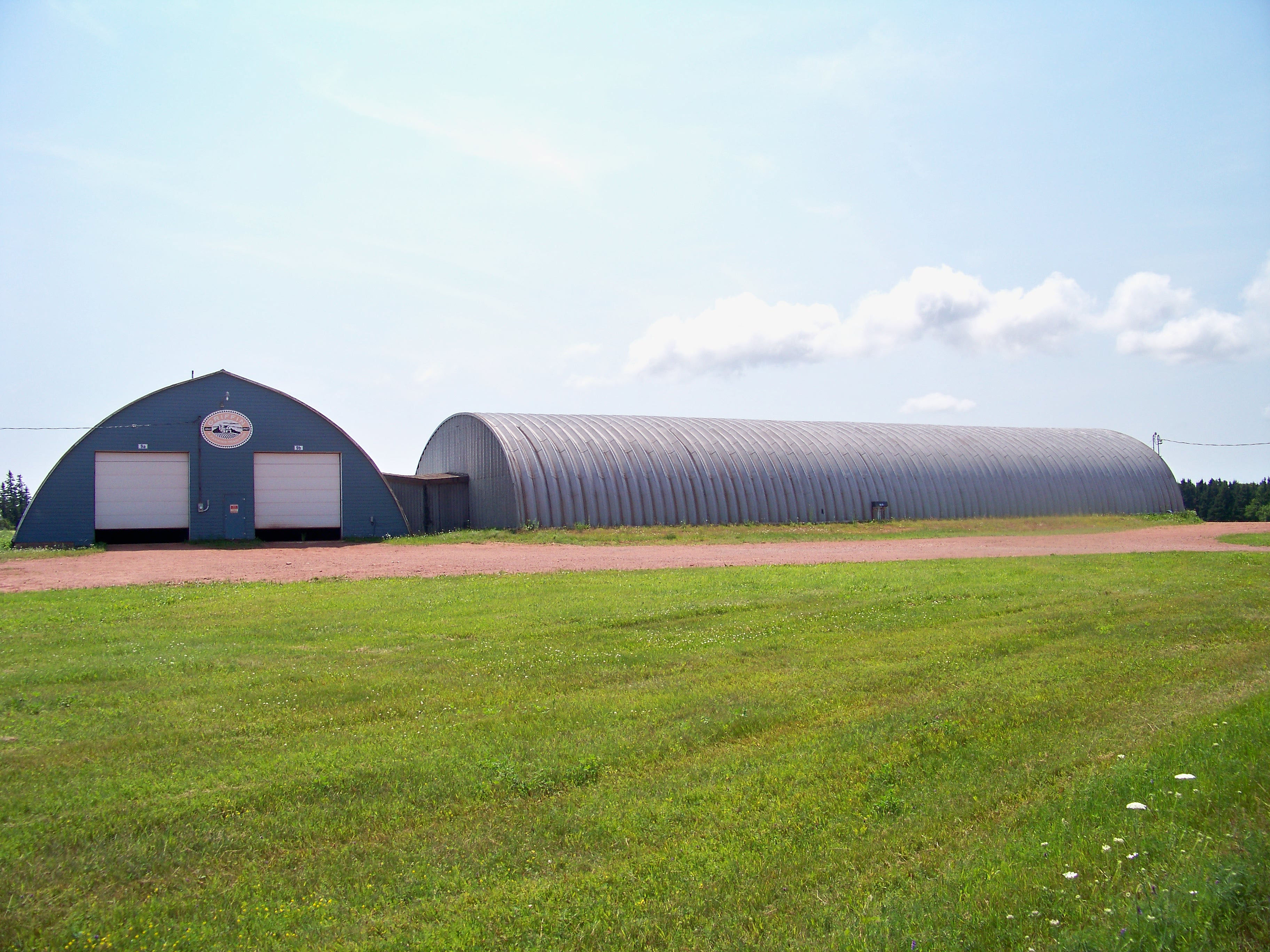 July 15, 2012